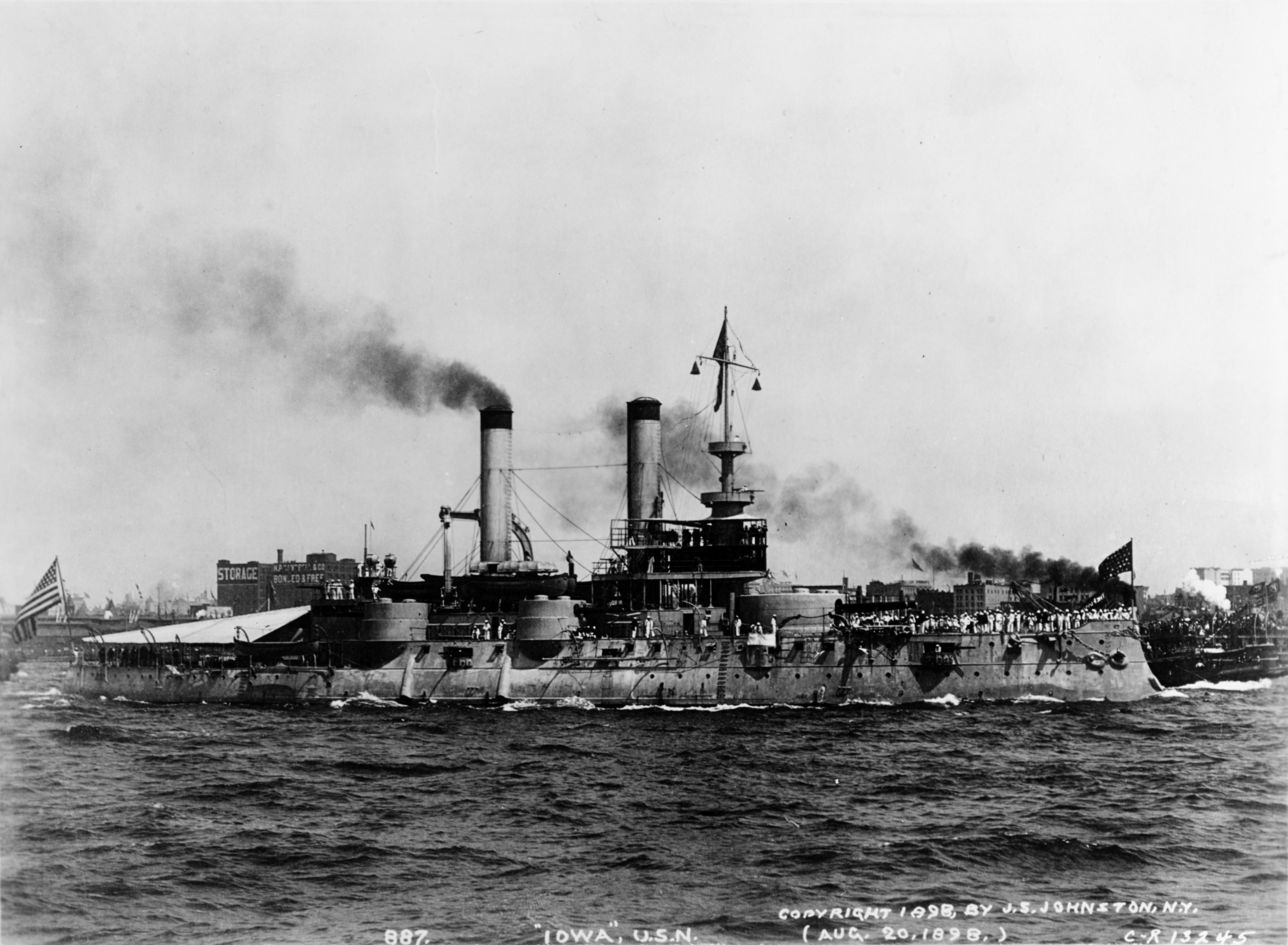 (Battleship # 4) Underway off New York City during the Spanish-American War Victory Fleet Review, 20 August 1898. U.S. Naval History and Heritage Command Photograph.